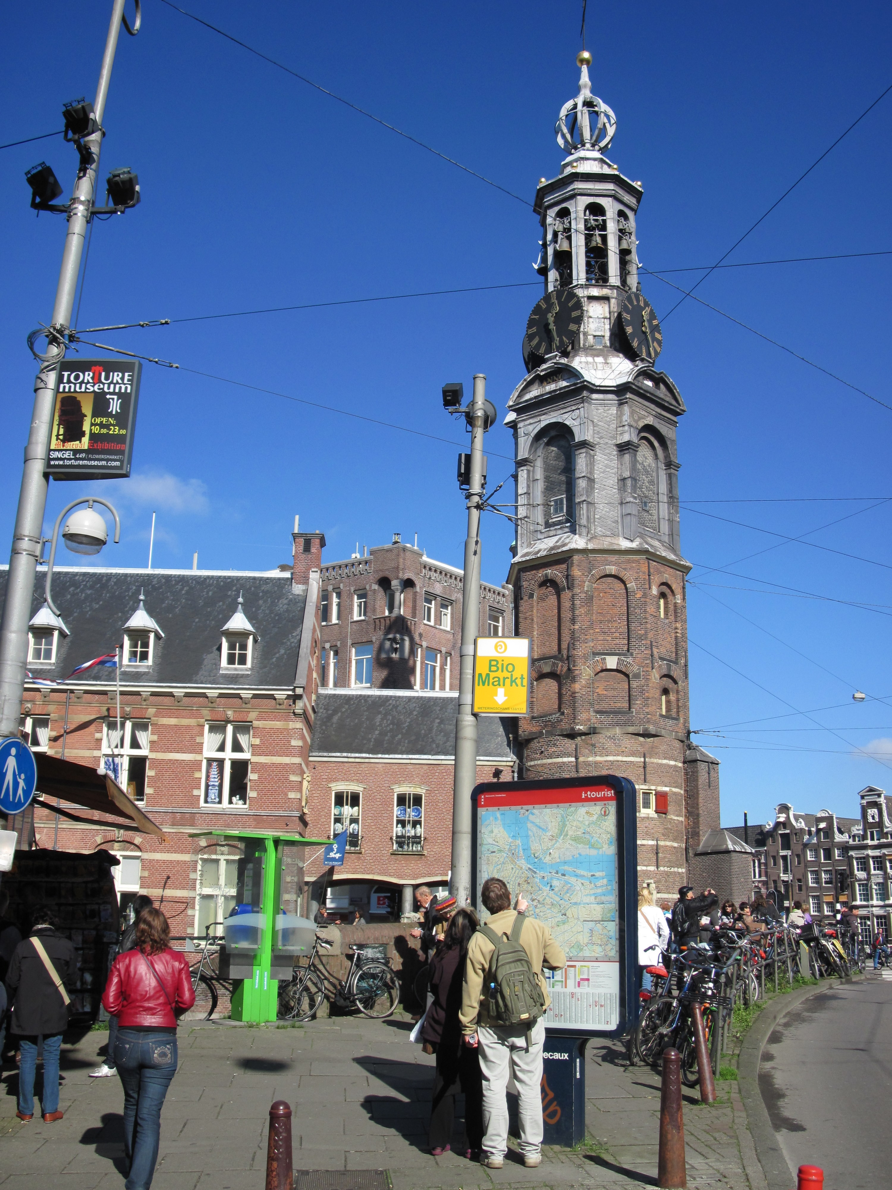 Muntorren